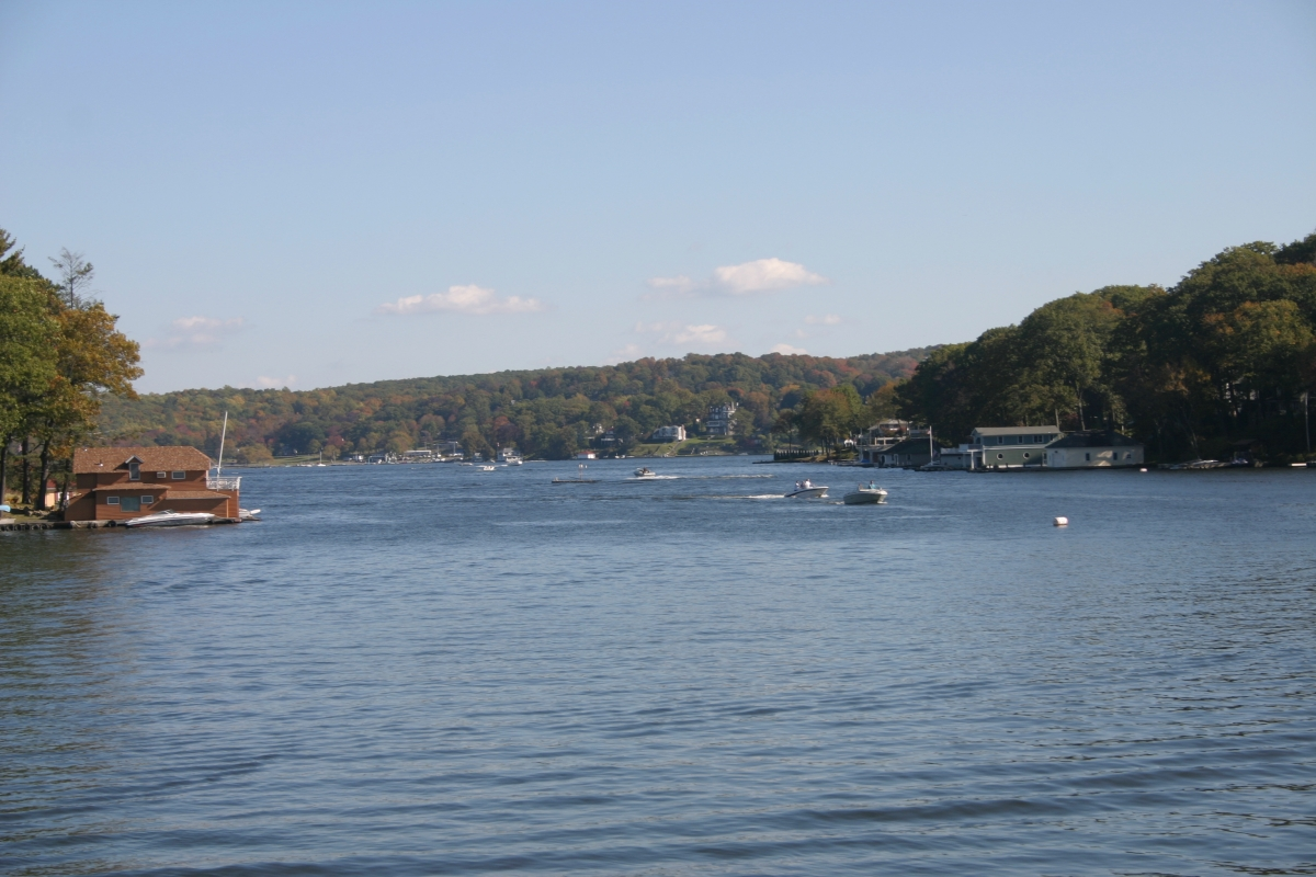 A view of Lake Hopatcong from Hopatcong Borough, NJ.